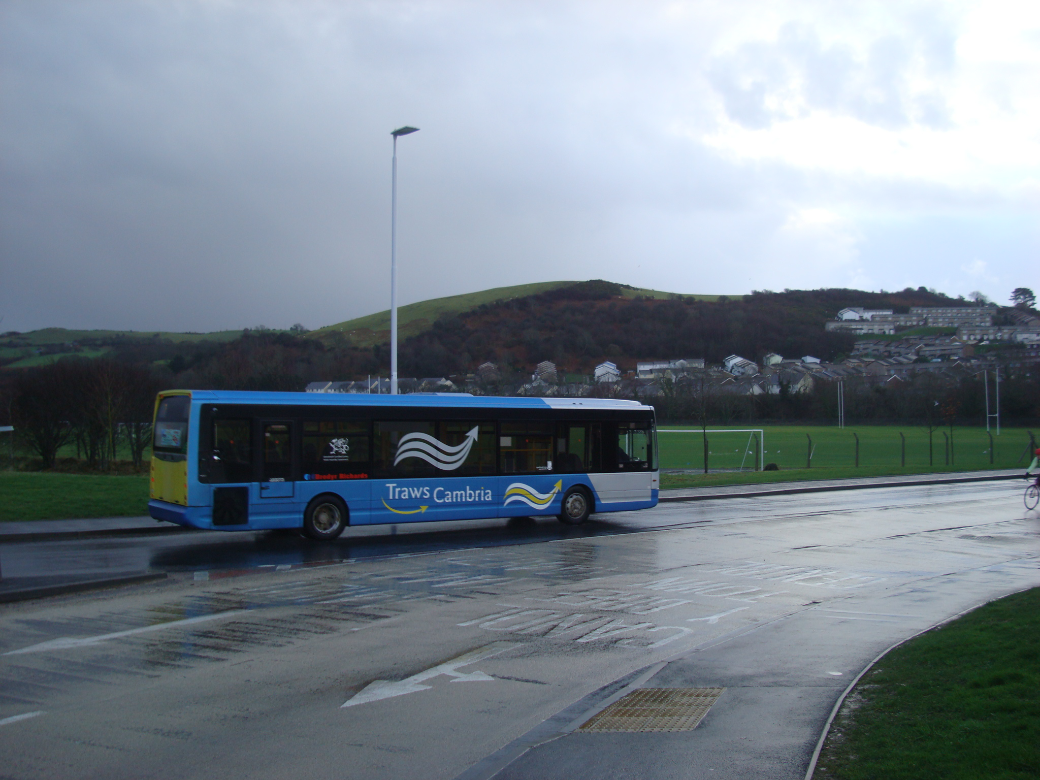 Optare Tempo YJ55BJK, the last bus to carry a TrawsCambria livery, seen leaving Morrisons in Aberystwyth.